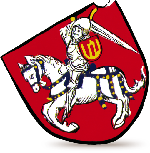 Coat of arms of Grand Duchy of Lithuania from «Codex Bergshammar»